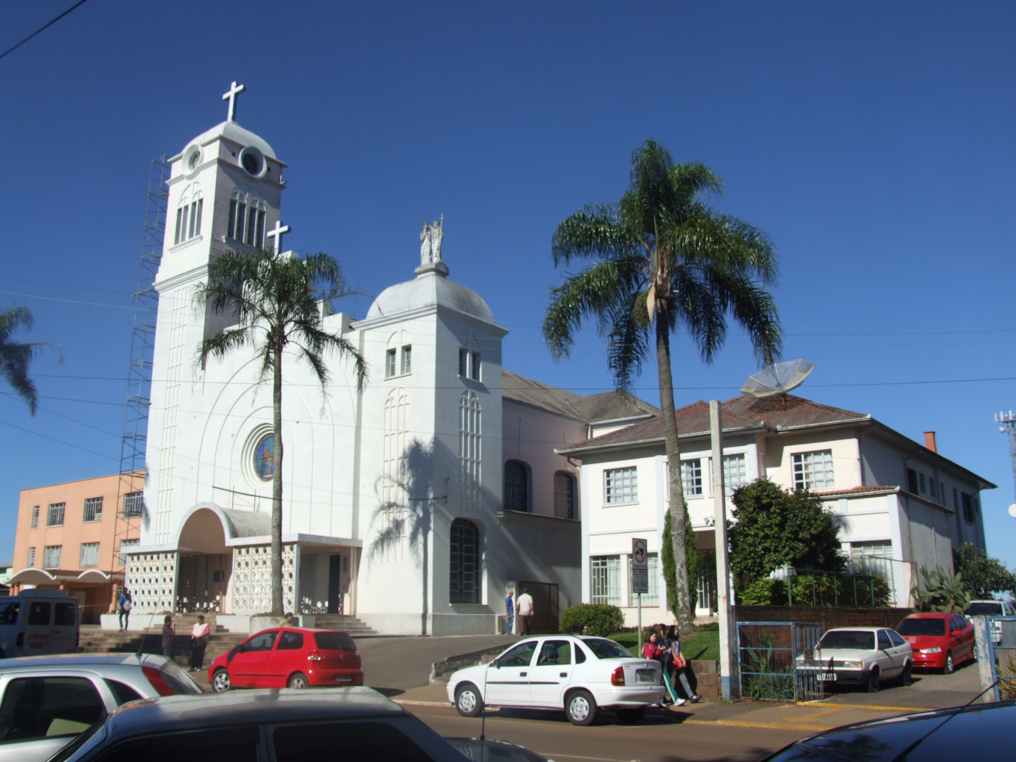 Church of Campos Novos, Santa Catarina, Brazil